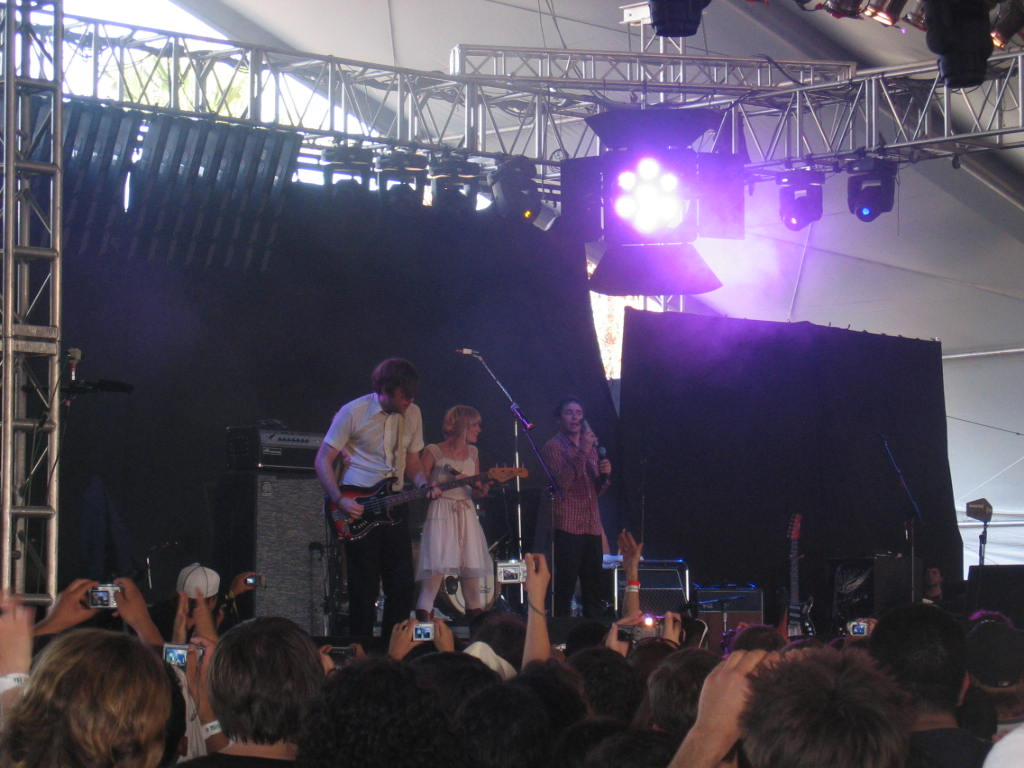 Peter Bjorn and John with Bebban Stenborg (Shout Out Louds) performing "Young Folks" at the Coachella Valley Music & Arts Festival on April 28th, 2007 (taken by )